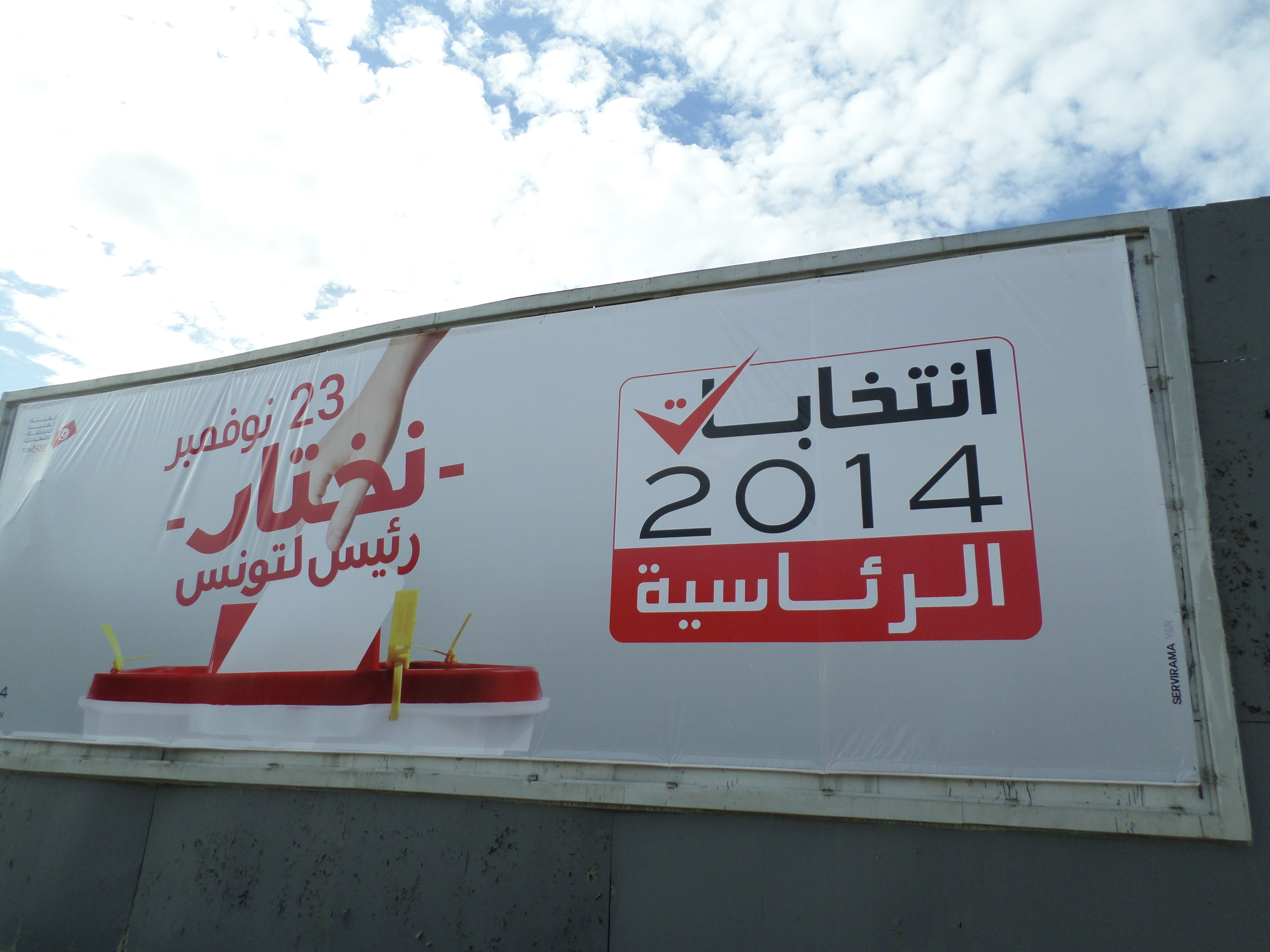 ISIE ad for presidential elections